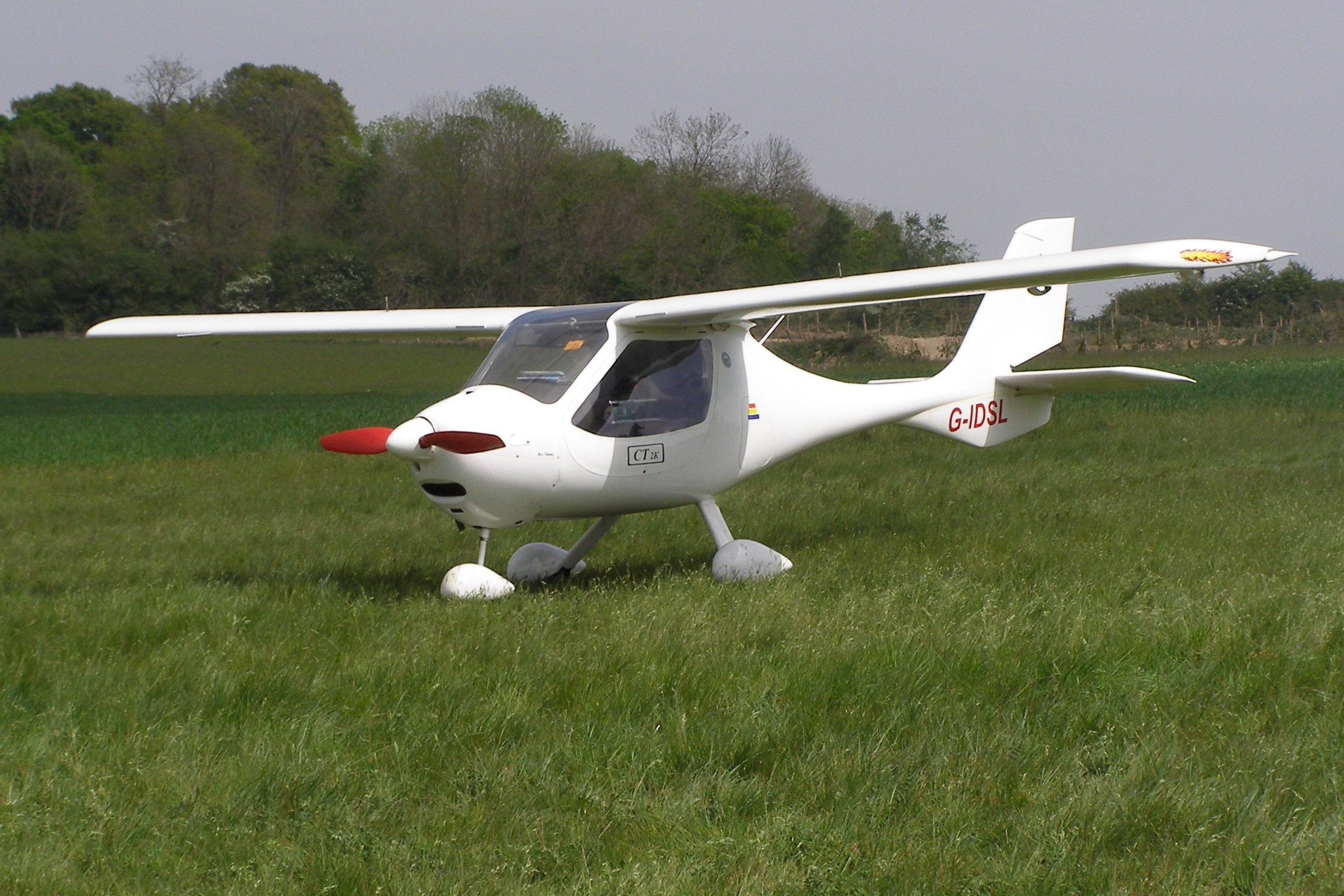 Flight Design CT2K Registered G-IDSL at Popham Airfield in 2007